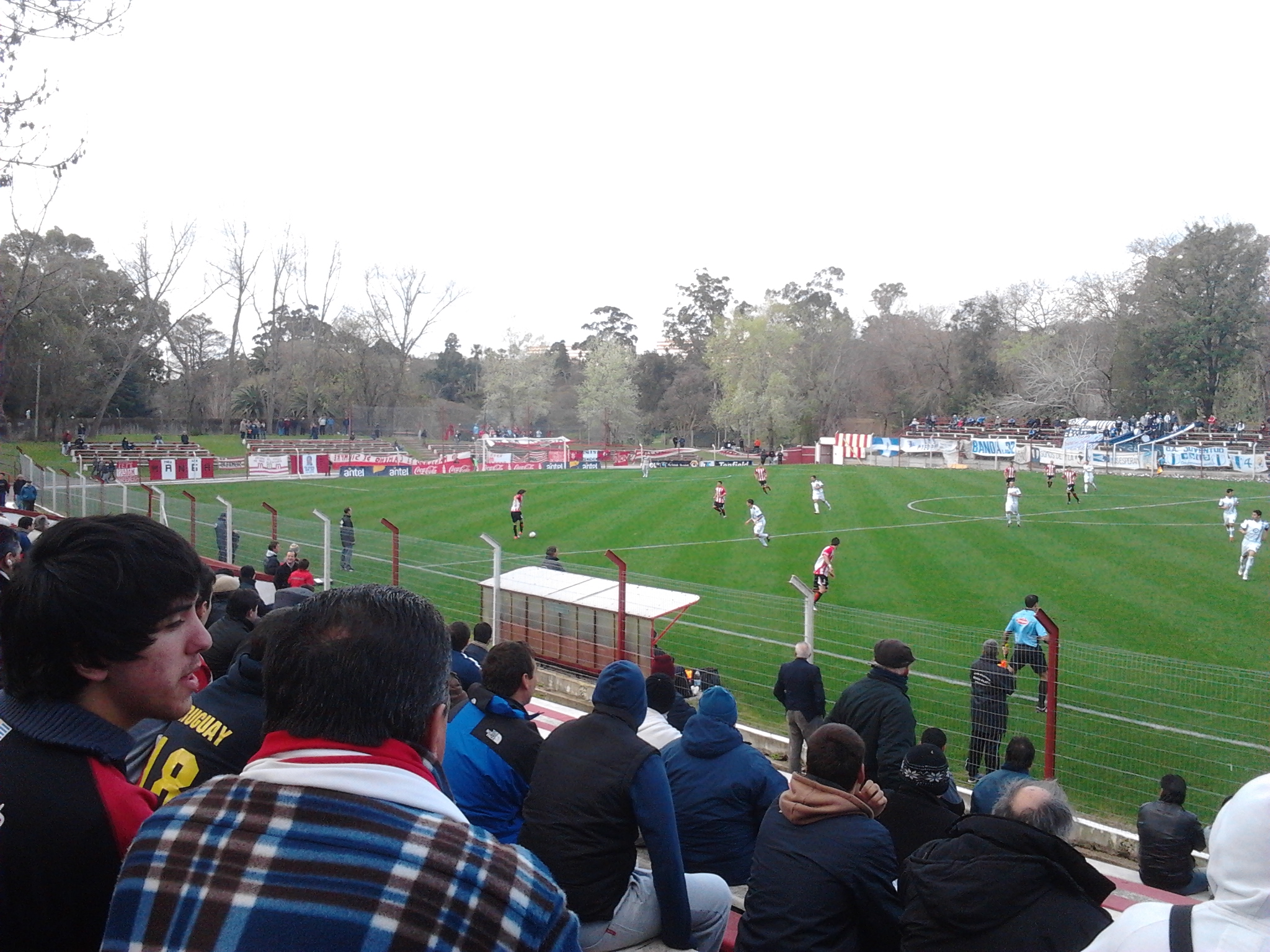 Panoramical view of Saroldi stadium, located in Montevideo, Uruguay. This photo was taken on August 25, 2012, during the match between C.A. River Plate and Juventud. The match ended with River Plate's victory 1-0.